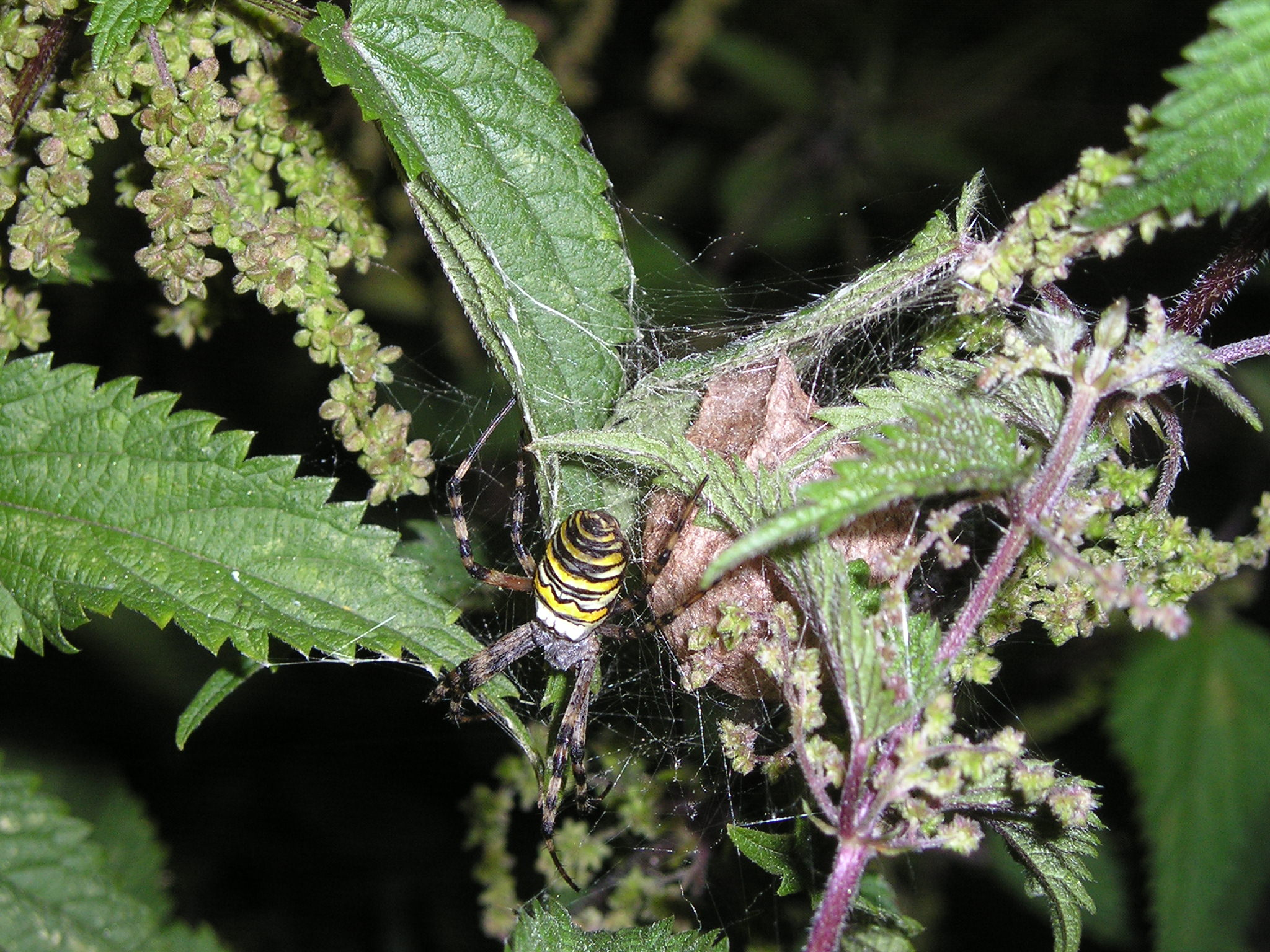 wasp spider guarding its egg sack in a nettle.